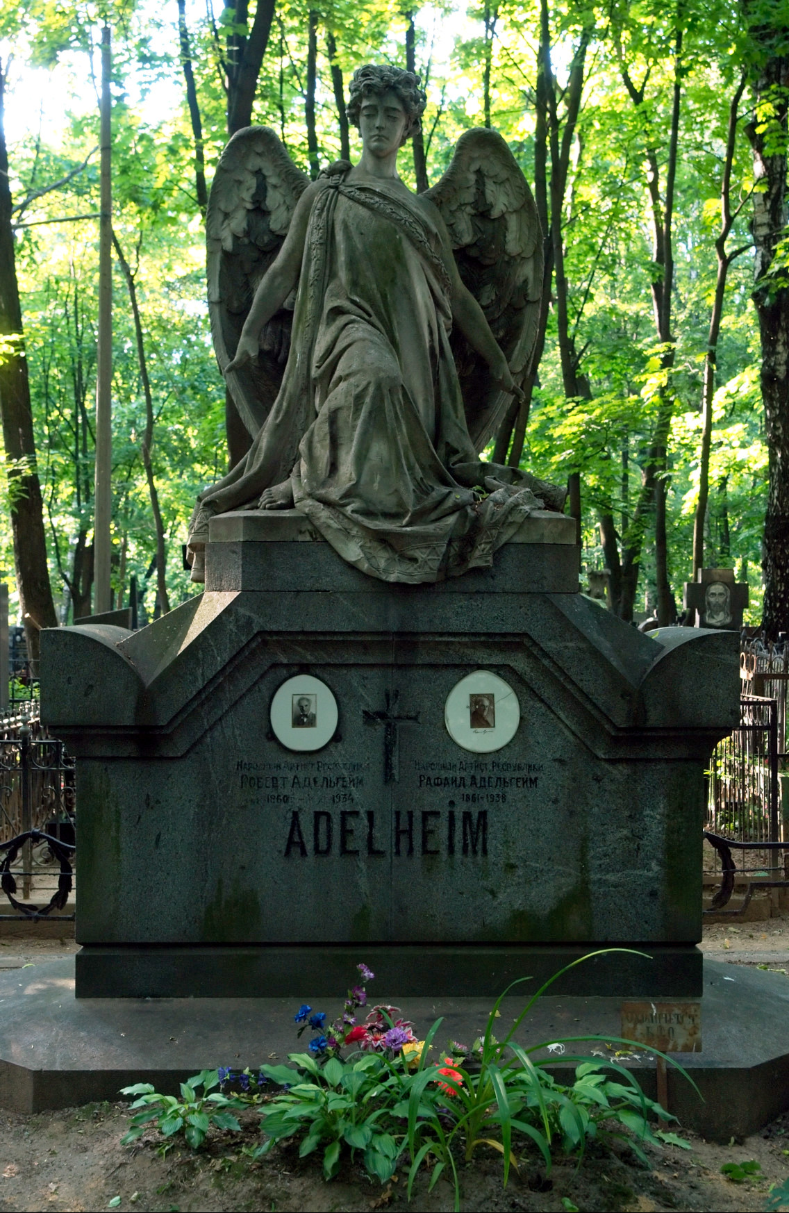 Adalheim graves, Vvedenskoye cemetery (Nalichnaya Street).